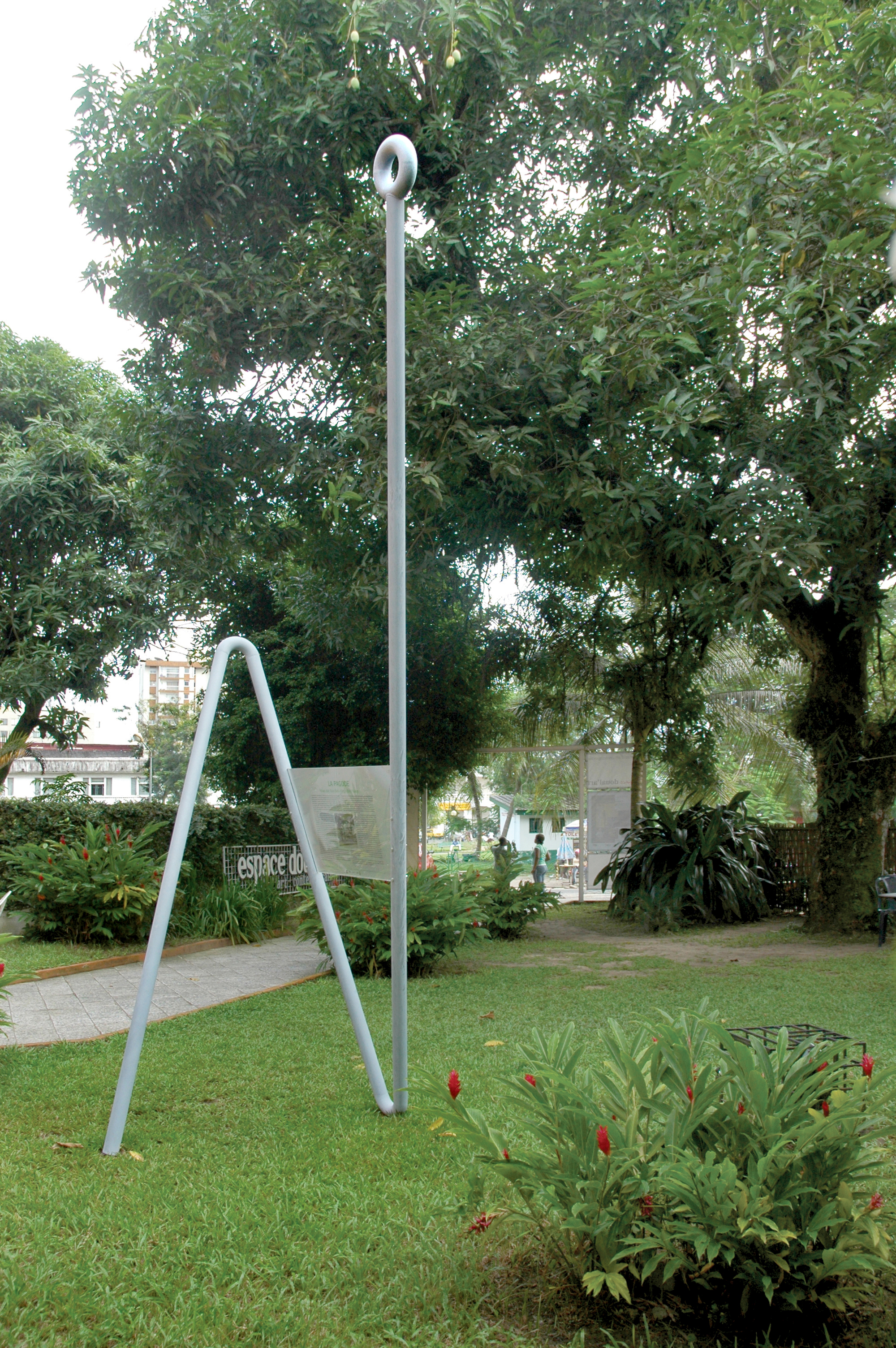 Sandrine Dole, Douala Ville d'art et d'Histoire (Douala city of art and history), Douala, 2006-2007, commissioned by doual'art. Photo by Sandrine Dole.